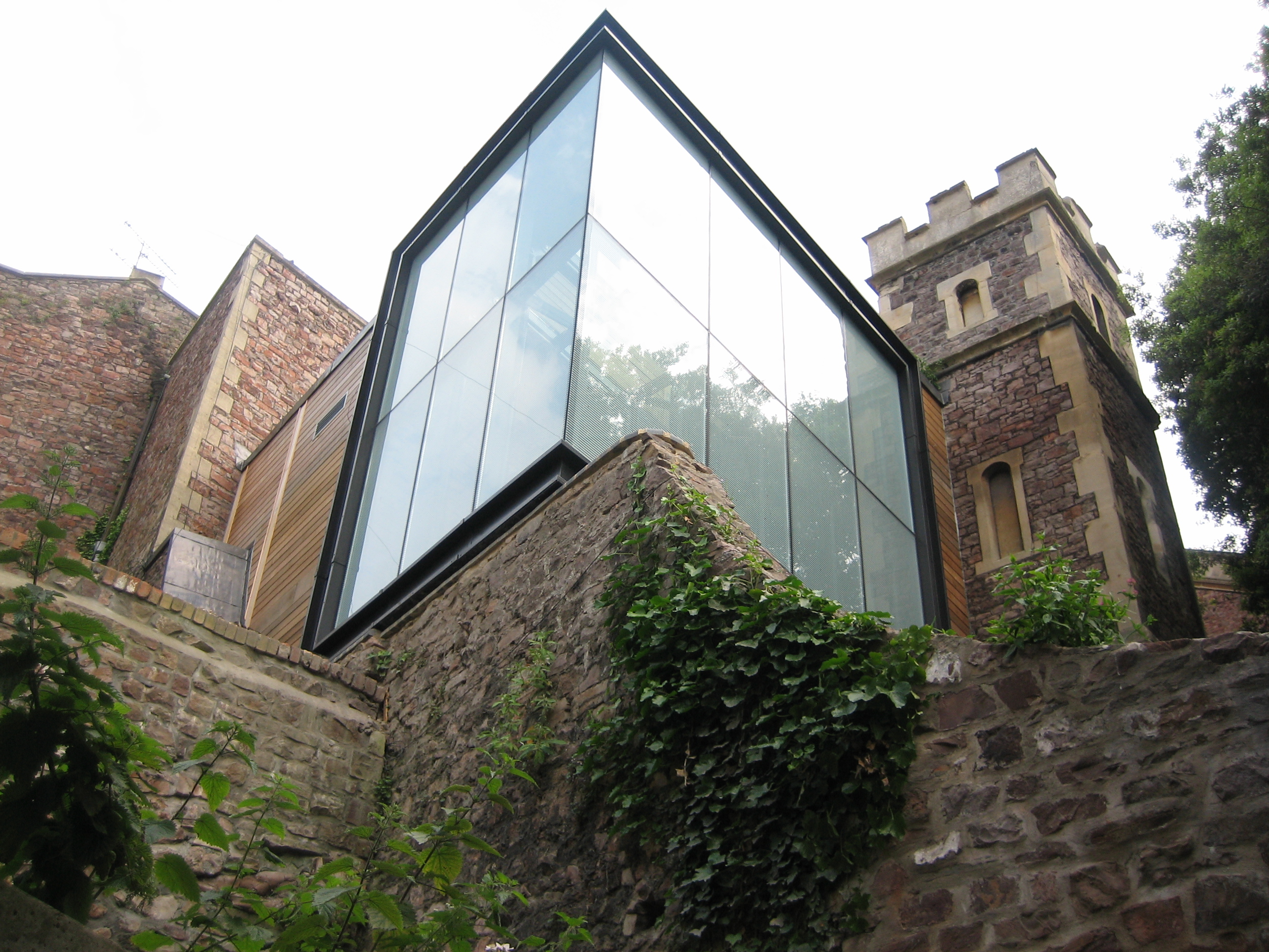 Designed by architect Ashley Smith (for GSS ARCHITECTURE)